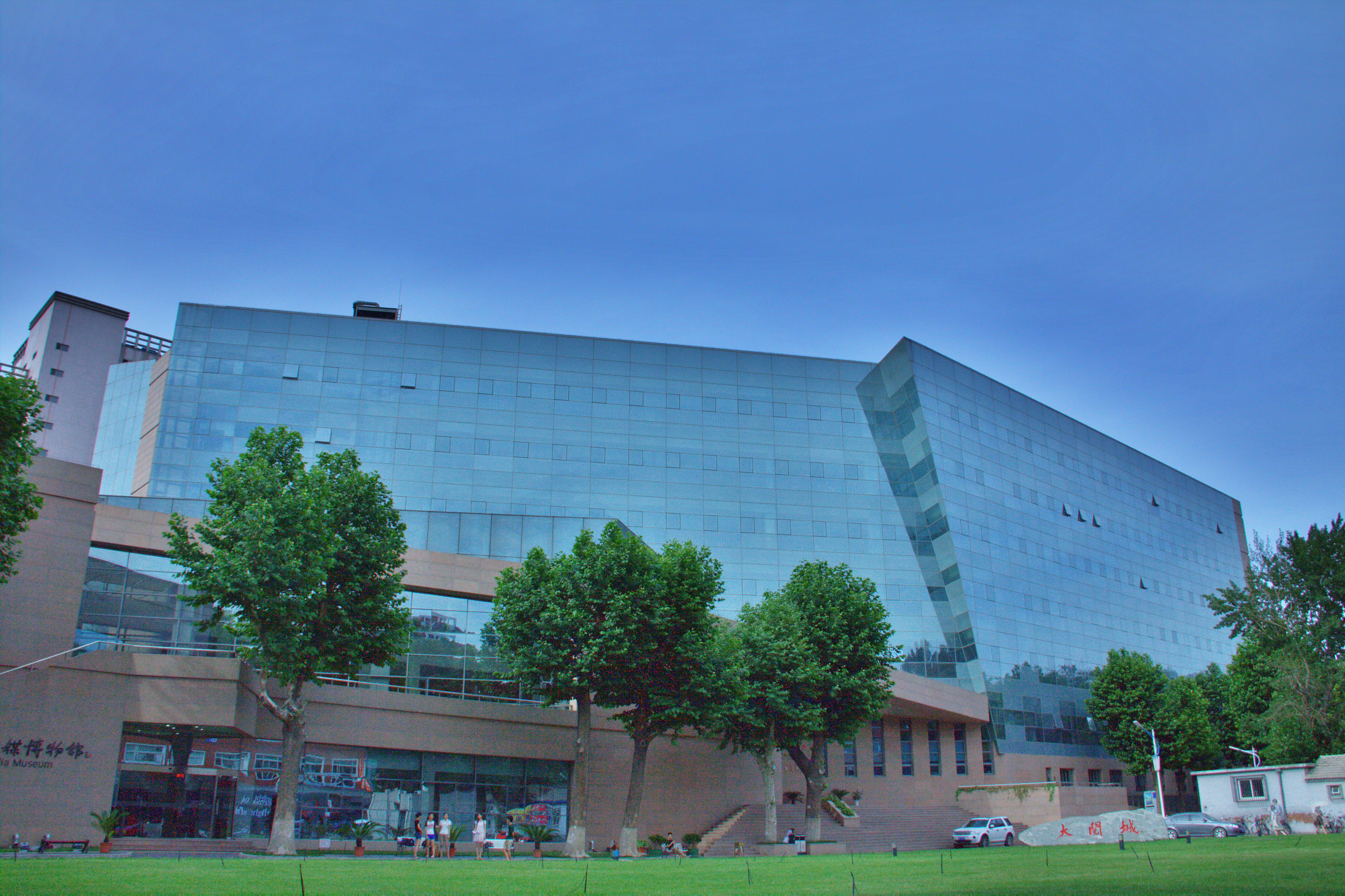 library of Communication University of China